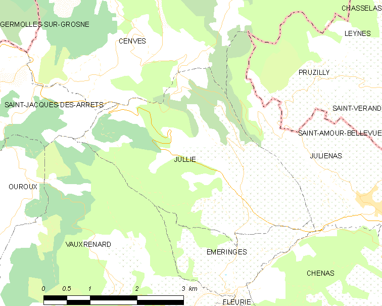 Map of French municipality